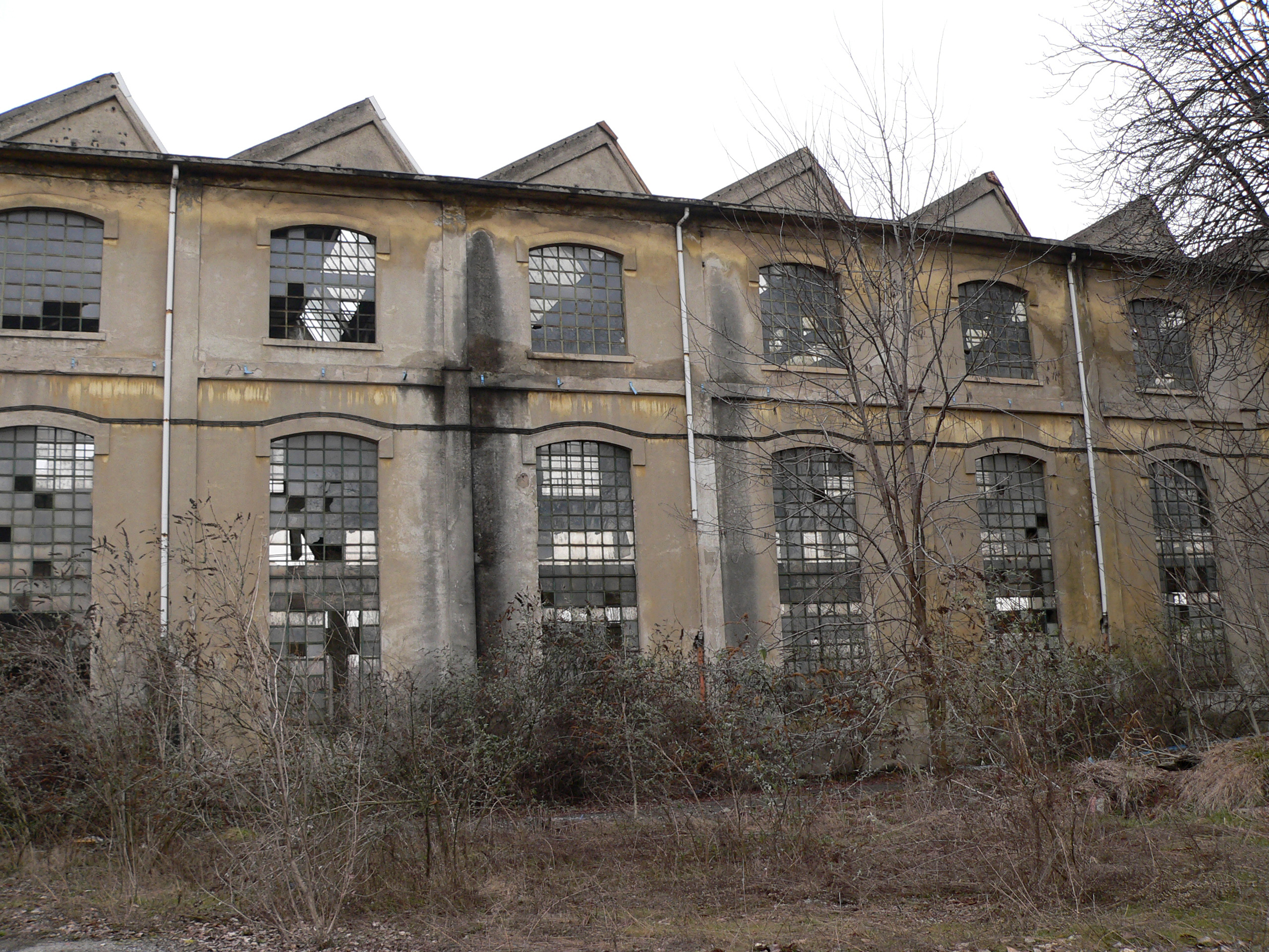 The building is a precious and distinctive example of a shed-style industrial facility, on account of both its size and the typological essence of the main structure. The OMEC (Officine Meccaniche e Costruzioni) Machine Shop is one of the most significant examples of particularly long industrial buildings in Italy. The building was part of the Falck Unione industrial site. On the entrance façade the signage is still visible, according to Falck usage, an acronym of four letter s indicating the function of the building. The most significant productions developed inside this complex include much of the machinery installed in Falck and other factories. In the naval engineering field, many propellers were also produced, especially during the Second World War, and cast in the nearby Foundry. Like many other exemplars supplied to all Italian shipbuilding yards, the ‘Dritto di Poppa’ a large steel cast, was produced for the Leonardo da Vinci ship. We may also recall the large casts for the battleships Roma and Vittorio Veneto. On the façade is a stone commemorating the OMEC workers who lost their lives in the Resistance or were deported to concentration camps for their part in the struggle against Nazi-Fascism. The building is placed in a brownfield area. It is part of the project of Sesto San Giovanni per l'UNESCO, the application for inscription on the world heritage list for humanity in the evolving cultural landscape category. This is a photo of a monument which is part of cultural heritage of Italy.